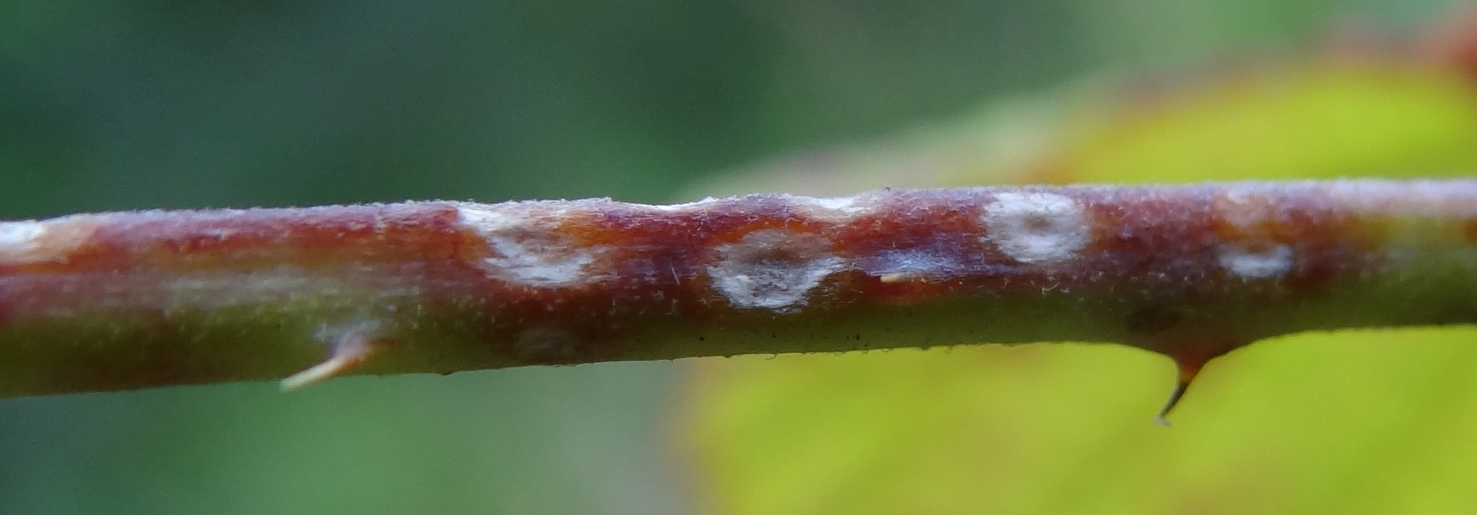 Elsinoë veneta on Rubus sp. (probablyrubus caesius). Location: Poland, Łapanów